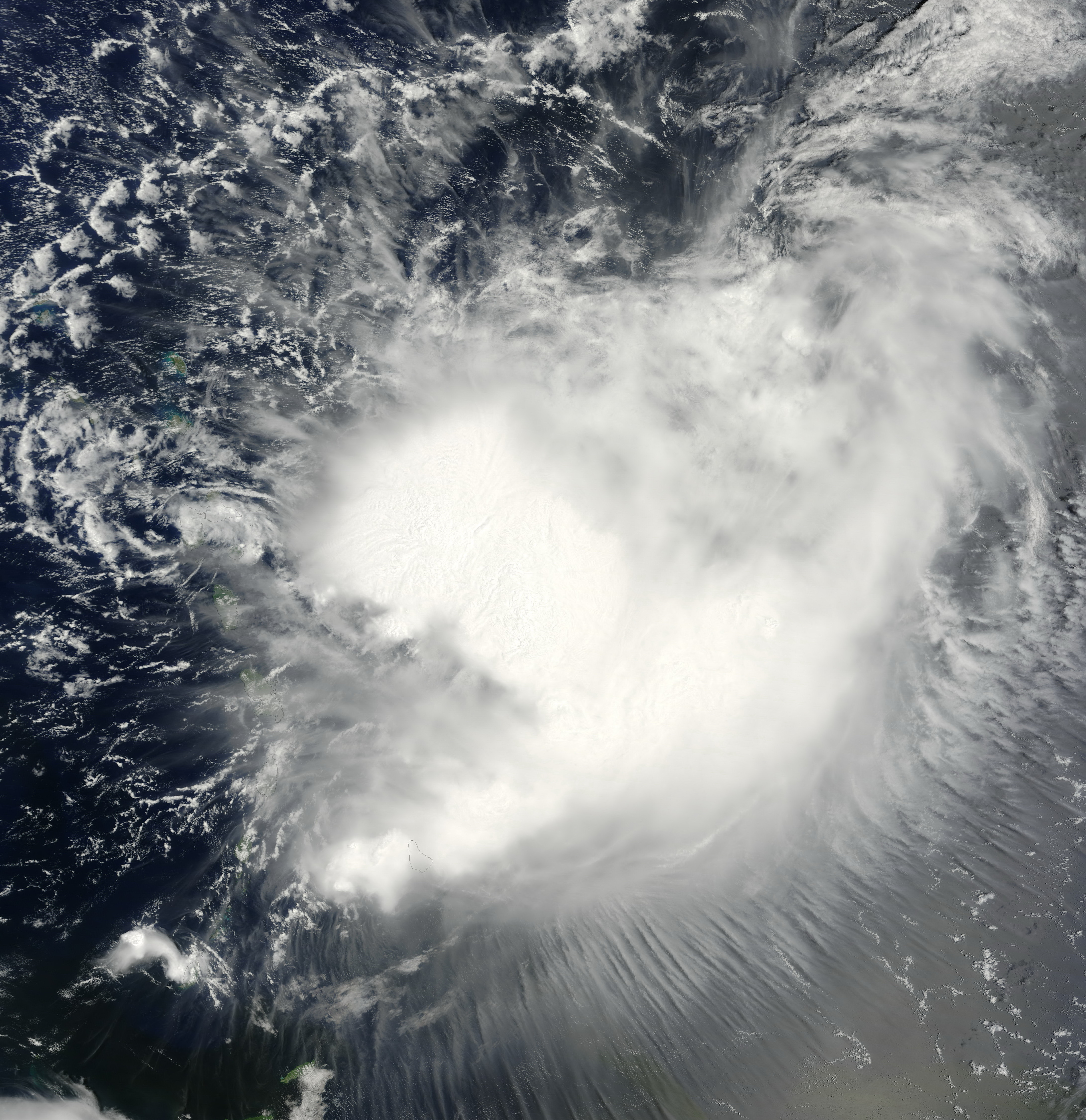 Tropical Storm Erika.